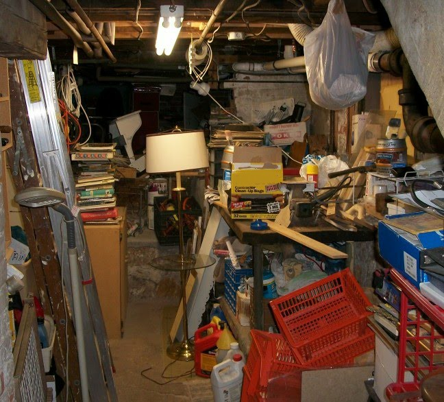 A handyman project was to de-clutter a basement which tends to get filled with things when it's not certain whether to throw or keep them. When a basement becomes too cluttered, it's hard to find things that are really needed. One way is to move clutter to a second location where it can be sorted into two piles (1) trash (2) items to keep. Source of picture: here (see public domain declaration). Questions: write to my Wikipedia page or email me at